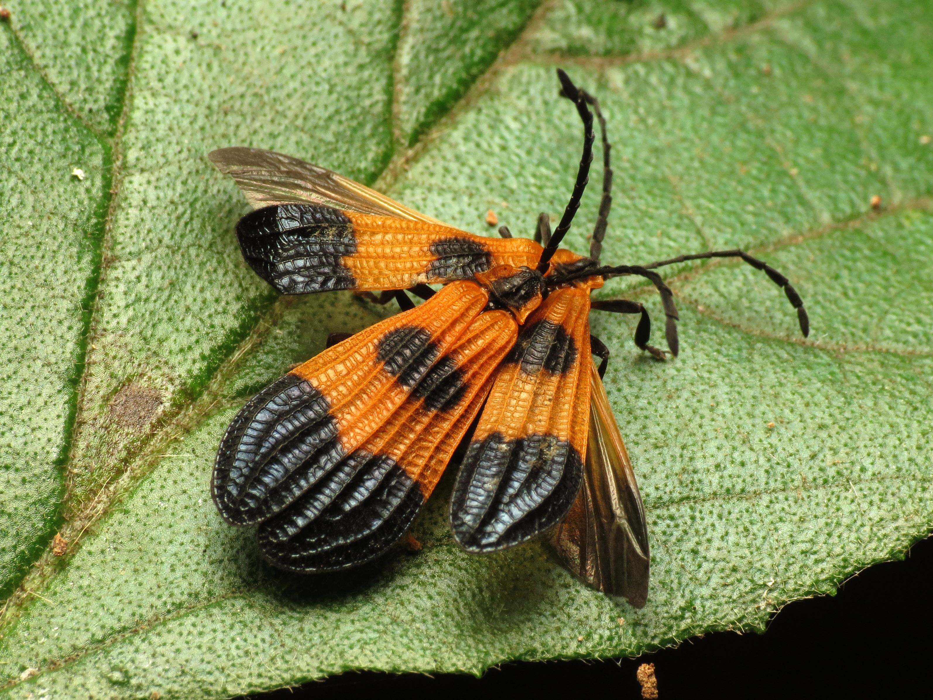 Calopteron terminale. Rock Creek Park, Washington, DC, USA.